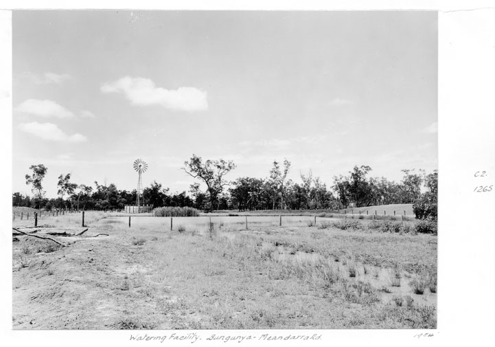 Watering facility, Meandarra Rd, Bungunya near Goondiwindi, c 1954